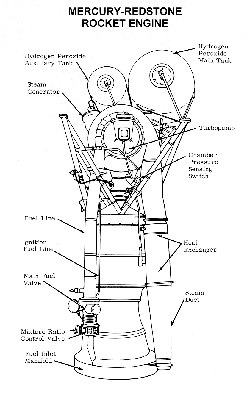 Diagram of the Mercury-Redstone's rocket engine, the Rocketdyne A-7.